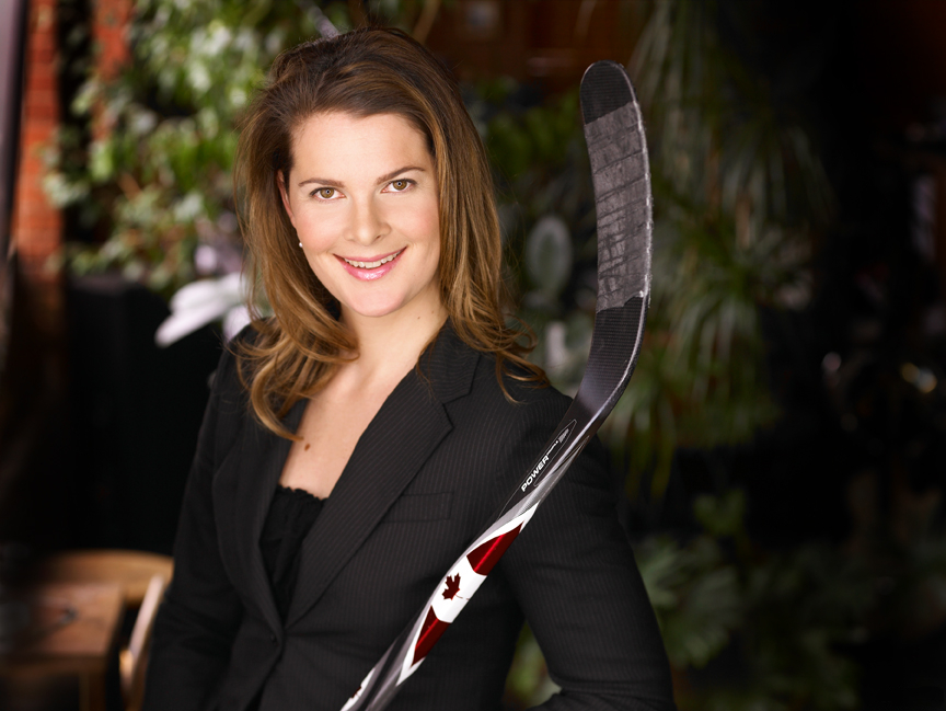 Jennifer Botterill, 3-time member of the Canadian national women's hockey team.